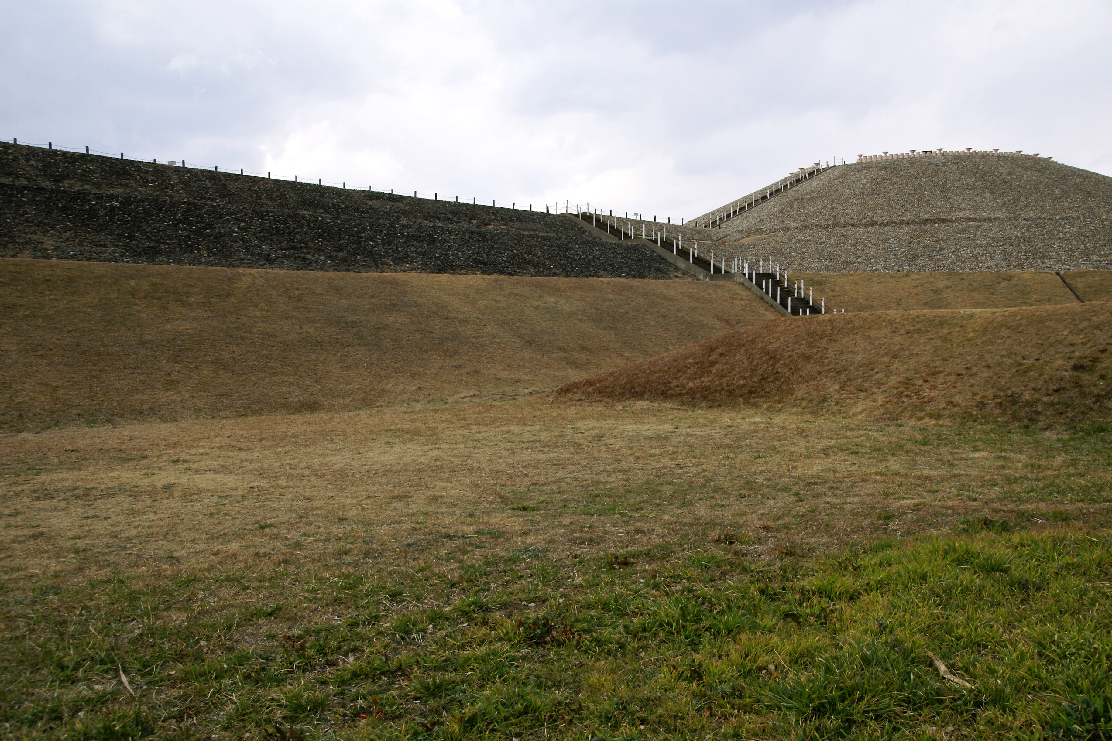 Goshikizuka kofun in Kobe, Hyogo prefecture, Japan